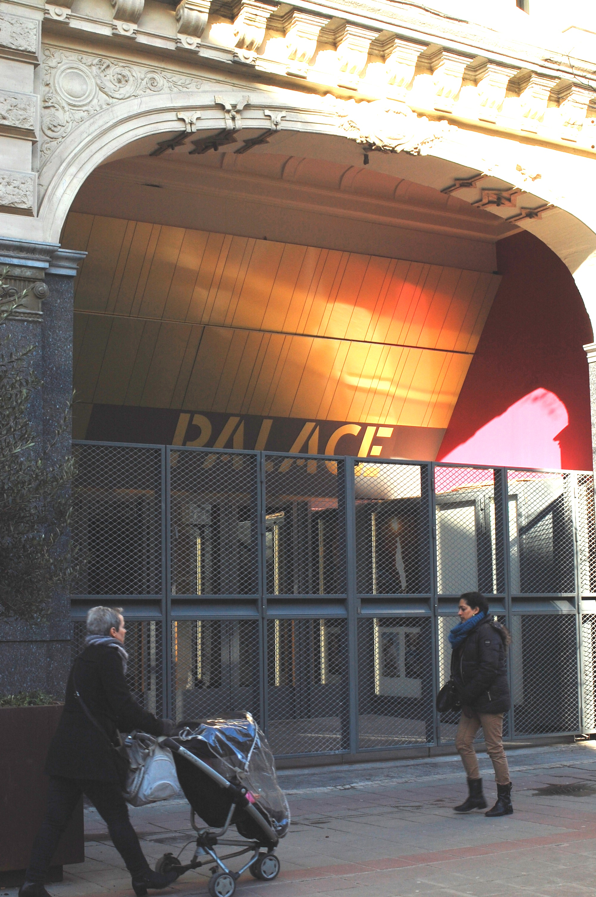 Cinéma Palace renewed entrance